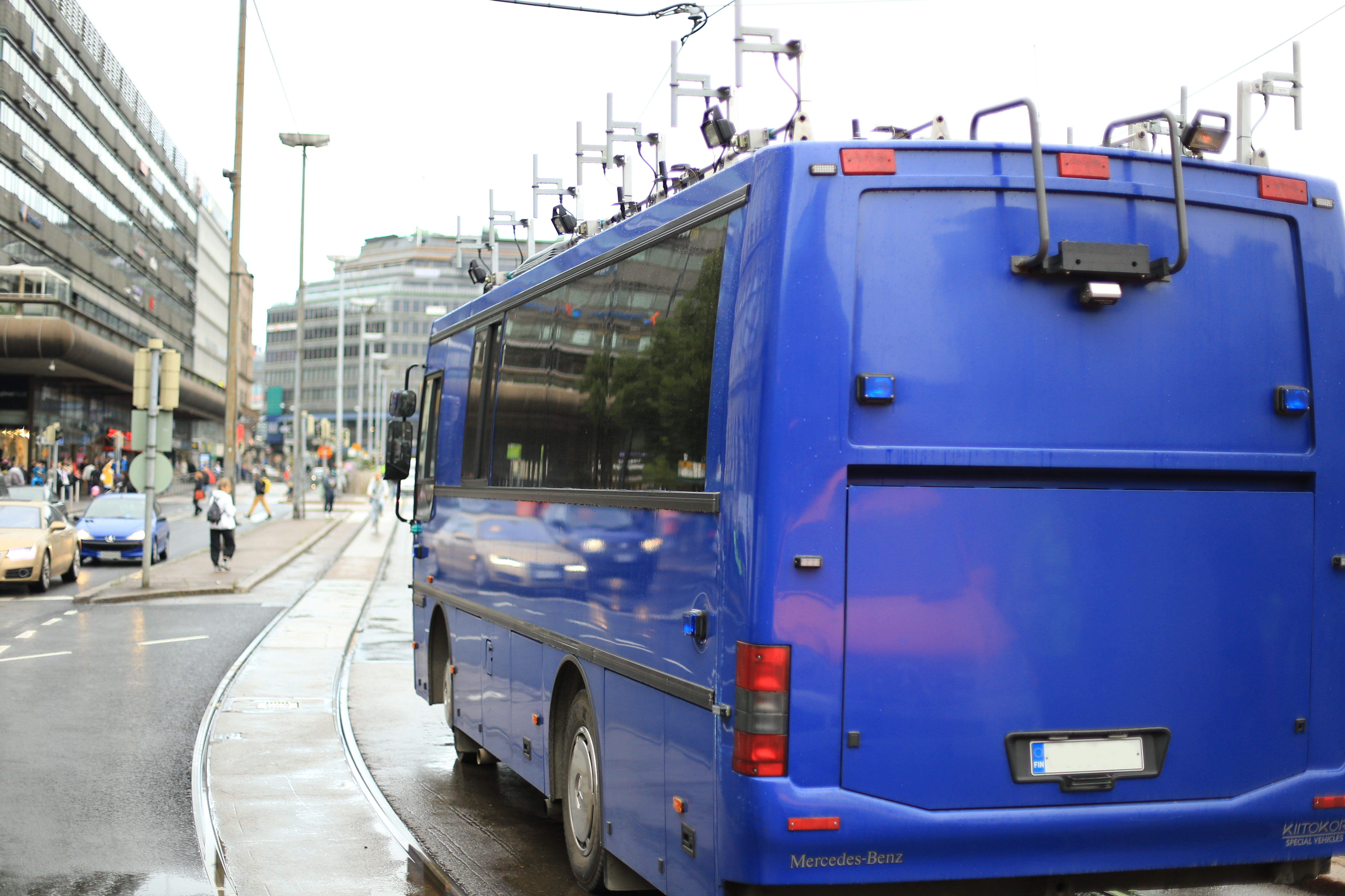 Police Bus in Helsinki City during a time of anti-government demonstration in 2015